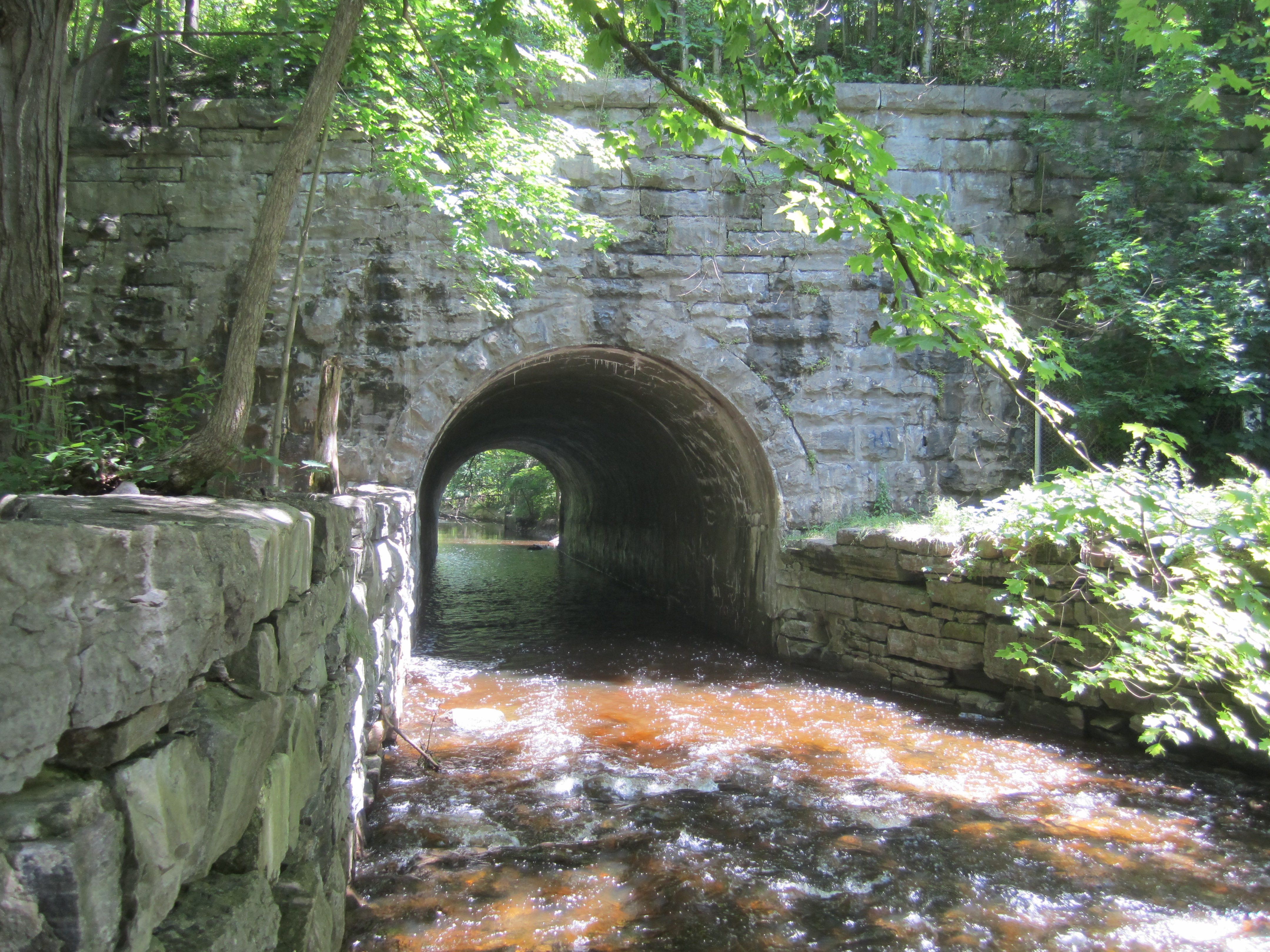 Bridge carrying the bed of the Schenectady and Saratoga Railroad over Gordon Creek in Ballston Spa, NY